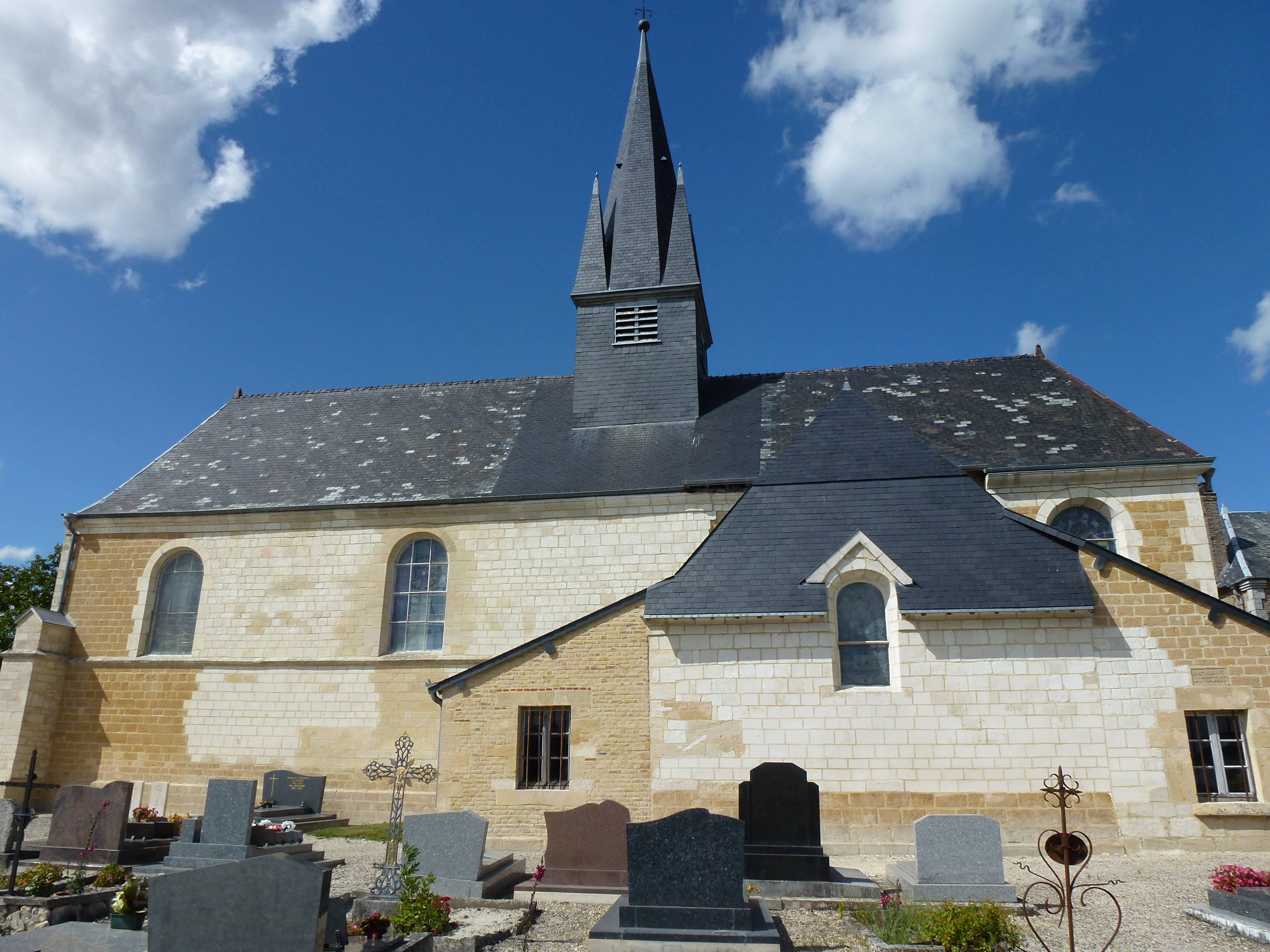 Sorbon (Ardennes) église, vue latérale